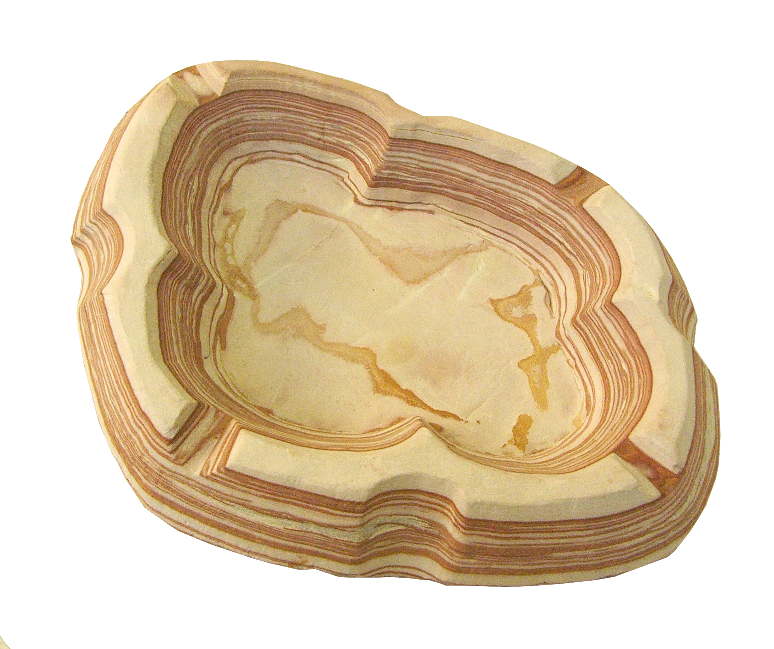 An ashtray carved out of banded ironstone, showing the clear red-white banding that resulted from photosynthetically produced oxygen during the day reacting with soluble iron compounds to form red, insoluble iron oxide, which precipitated out to form the red bands. Since there was no free oxygen in the atmosphere at night, the iron remained soluble and only white sediment settled on the bottom of the lake/lagoon.